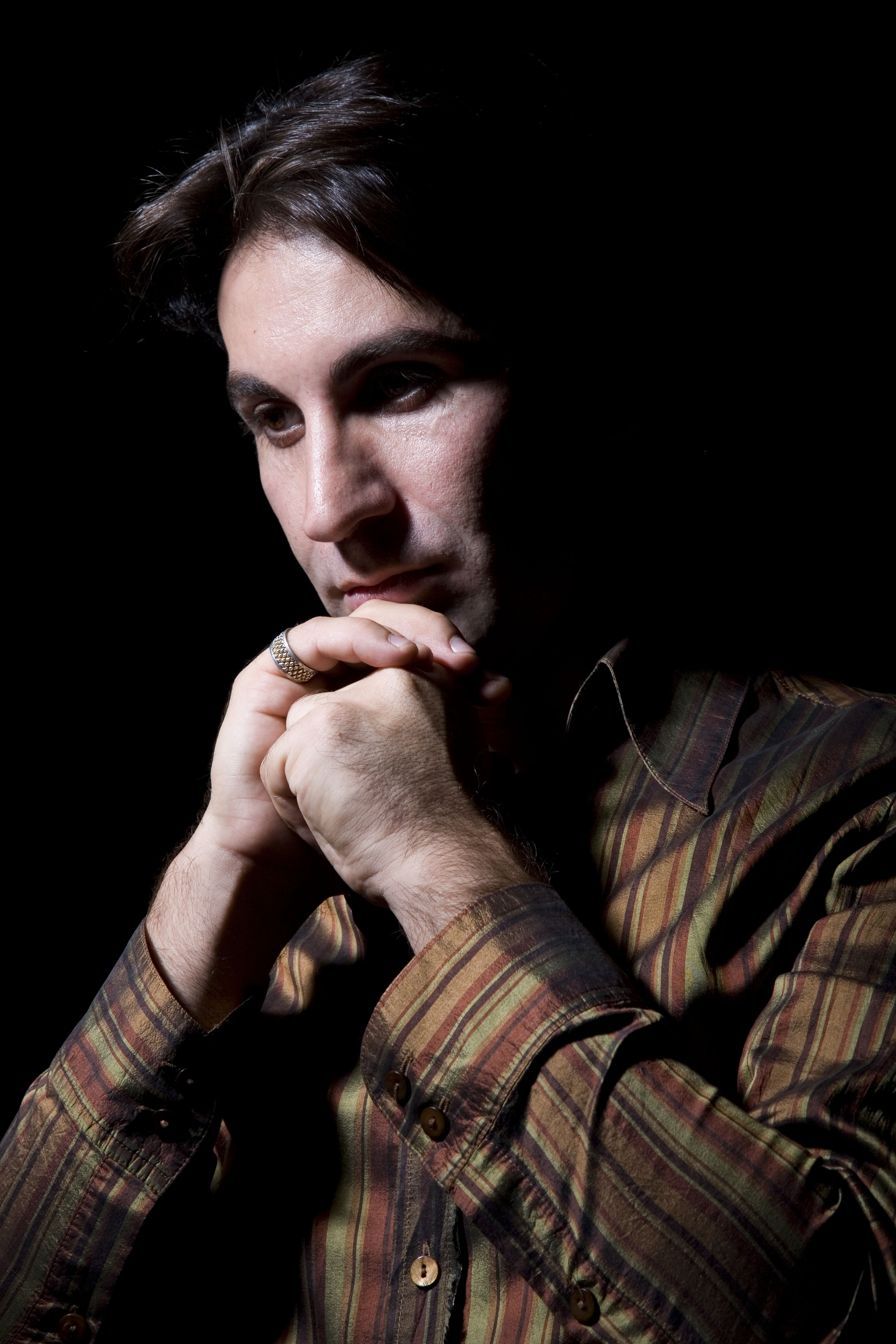 Sar Sargsyan